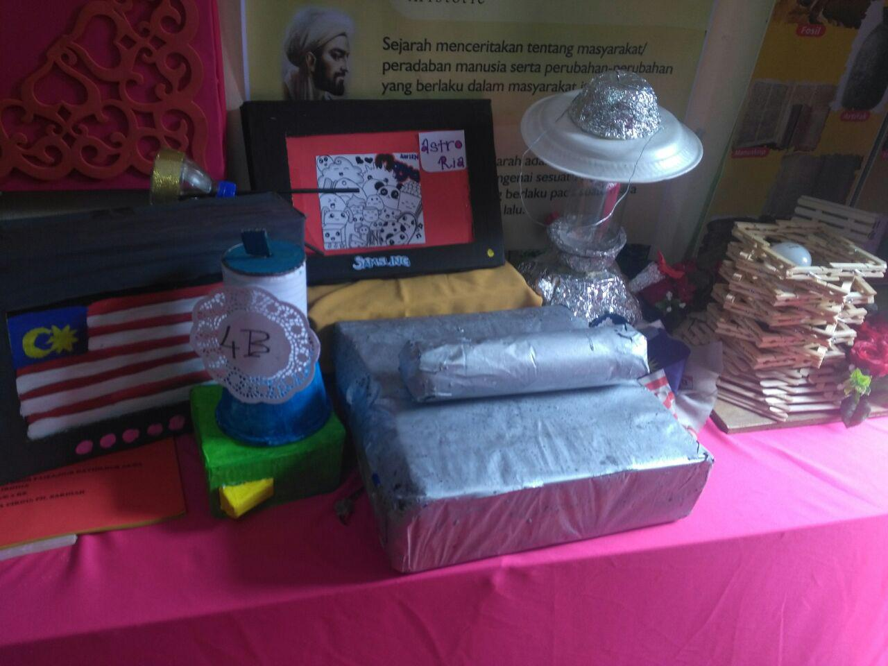 Hasil Pelajar